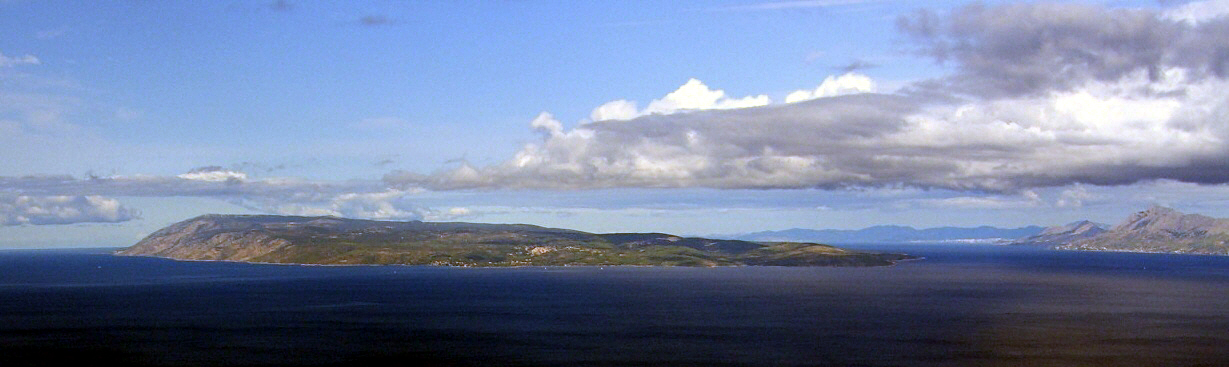 Island of Brač, Croatia